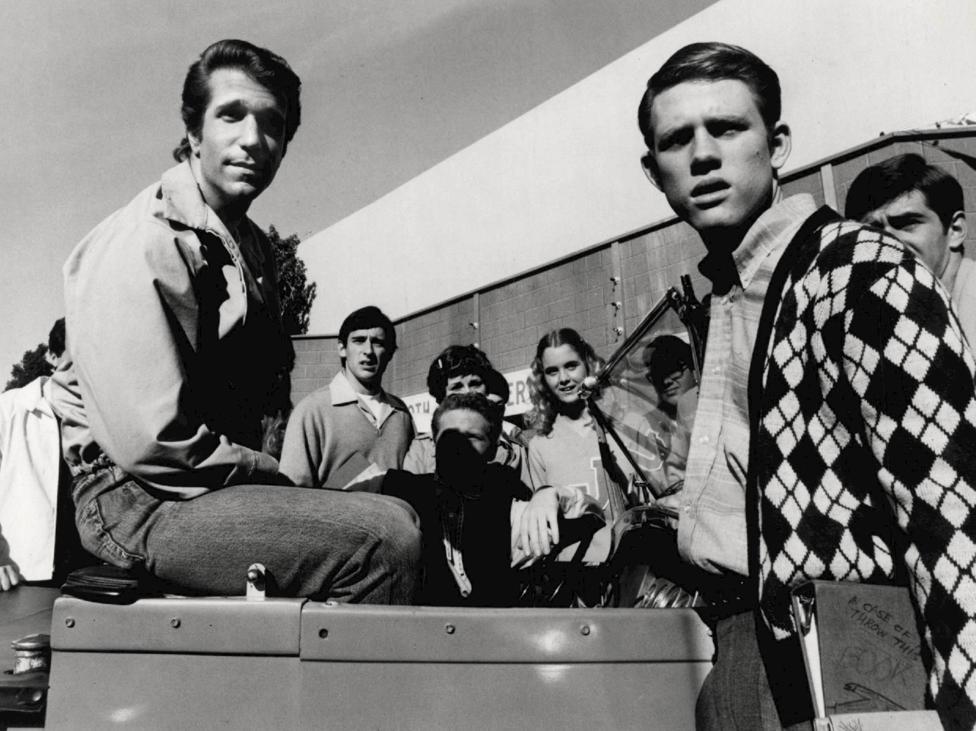 Photo of Henry Winkler, Donny Most and Ron Howard from Happy Days. Fonzie is getting ready to drag race with Ralph's car.